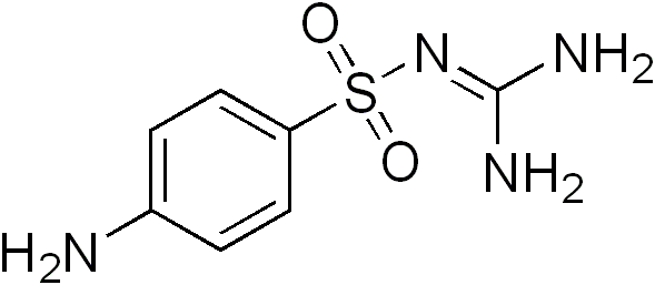 chemical structure of sulfaguanidine